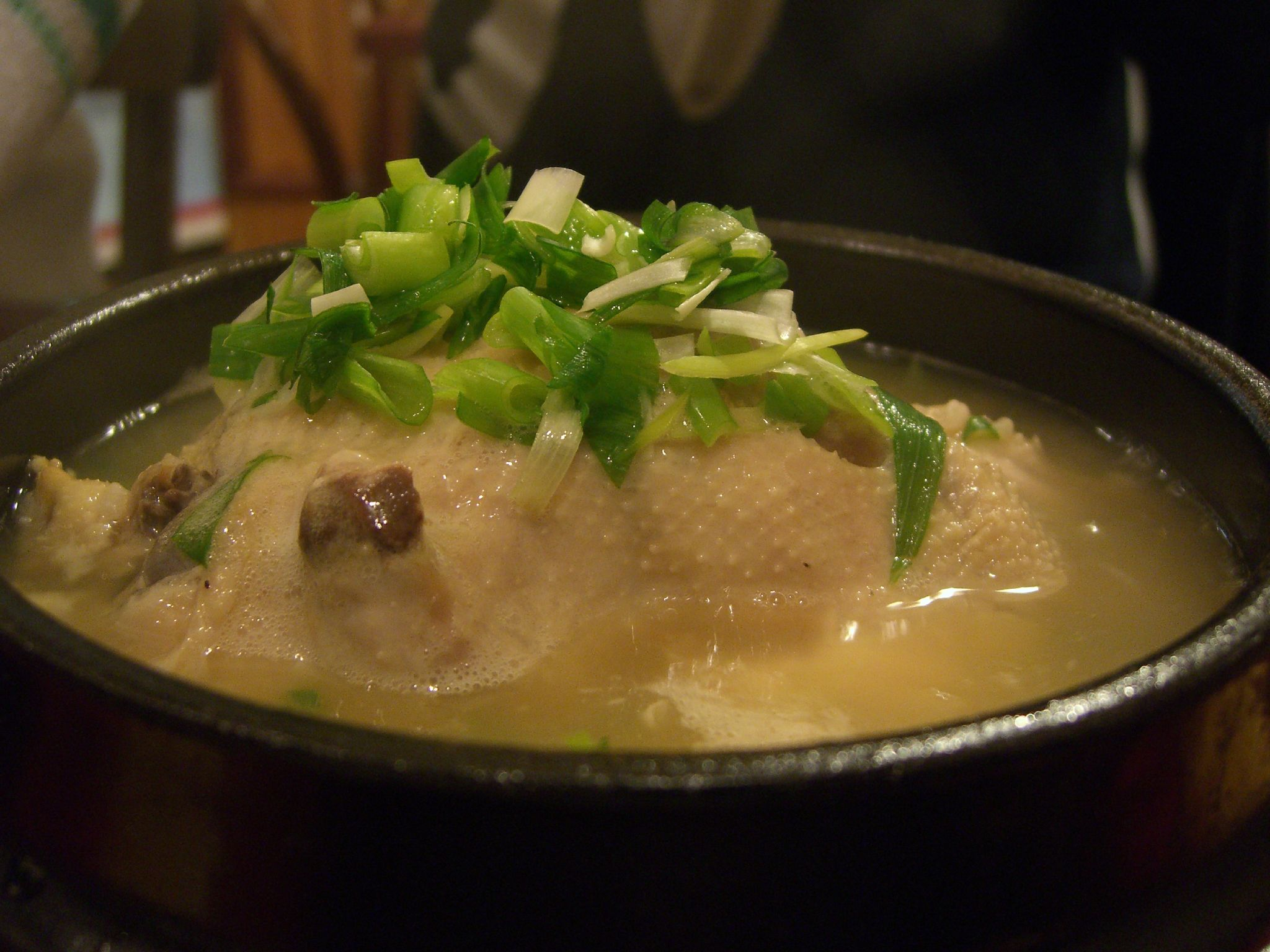 Samgyetang, a chiken ginseng soup in Korean cuisine